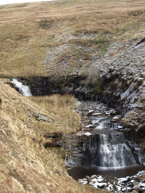 Hudeshope Beck Waterfalls These are the two most impressive waterfalls on Hudeshope Beck. The stream is full of smaller falls and cascades. These falls are marked but not named on the map.